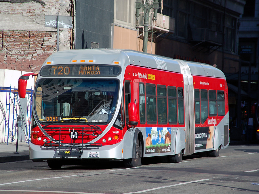 A NABI 60-BRT coach, owned and operated by the Los Angeles County Metropolitan Transportation Authority.